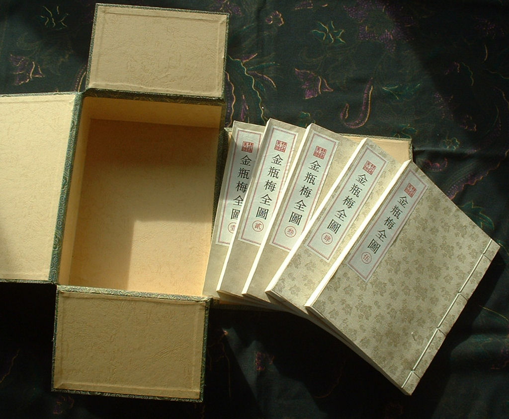 Description: the Chinese novel Jinpingmei (金瓶梅„Jīnpíngméi) Source: own photography Date: November 2005 Author: --Immanuel Giel 14:06, 17 November 2005 (UTC) Other versions: none